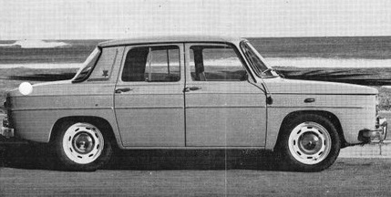 Renault 8 Alconi offerd to South African public 1964 - 1966